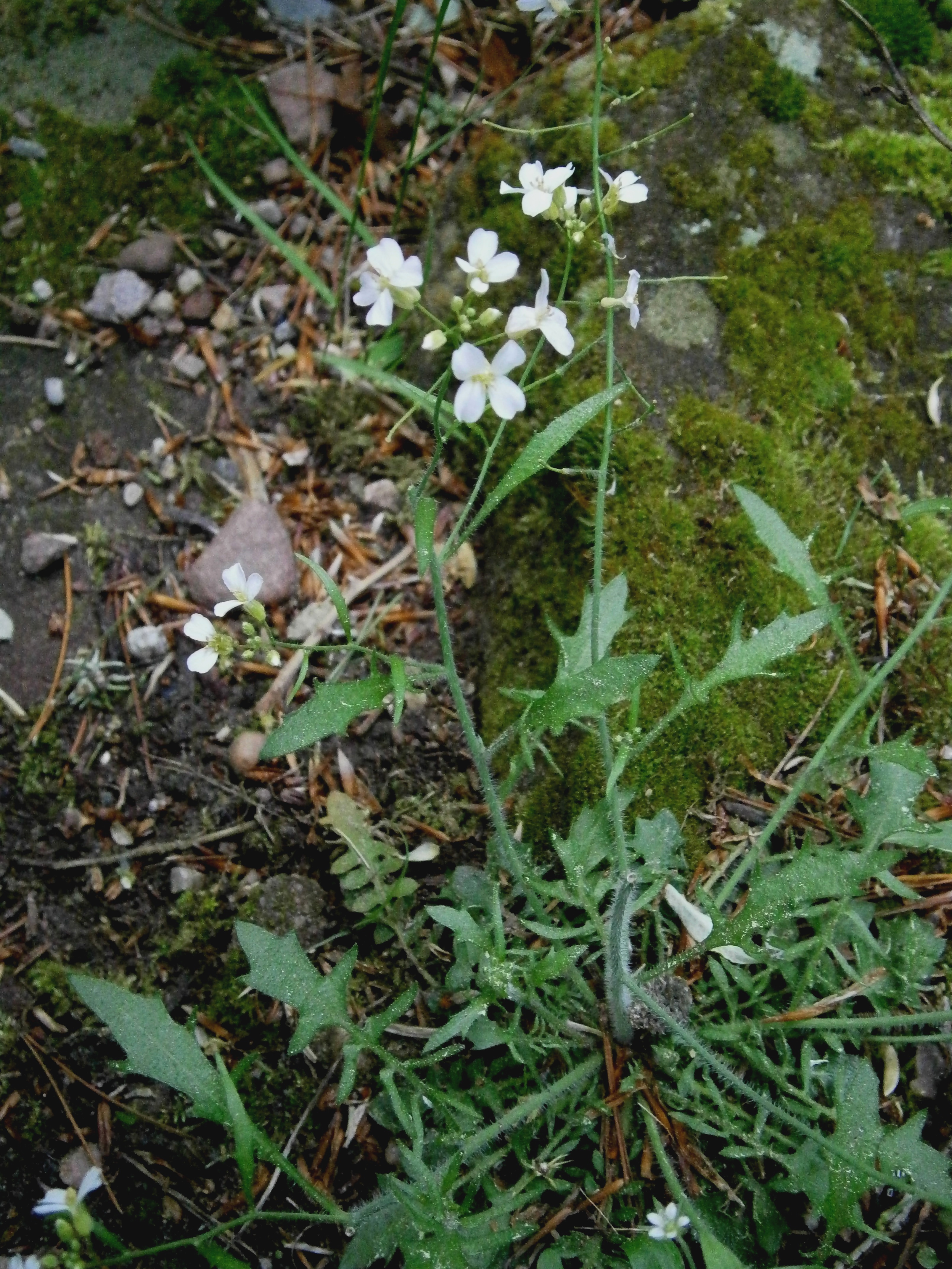 Cardaminopsis arenosa